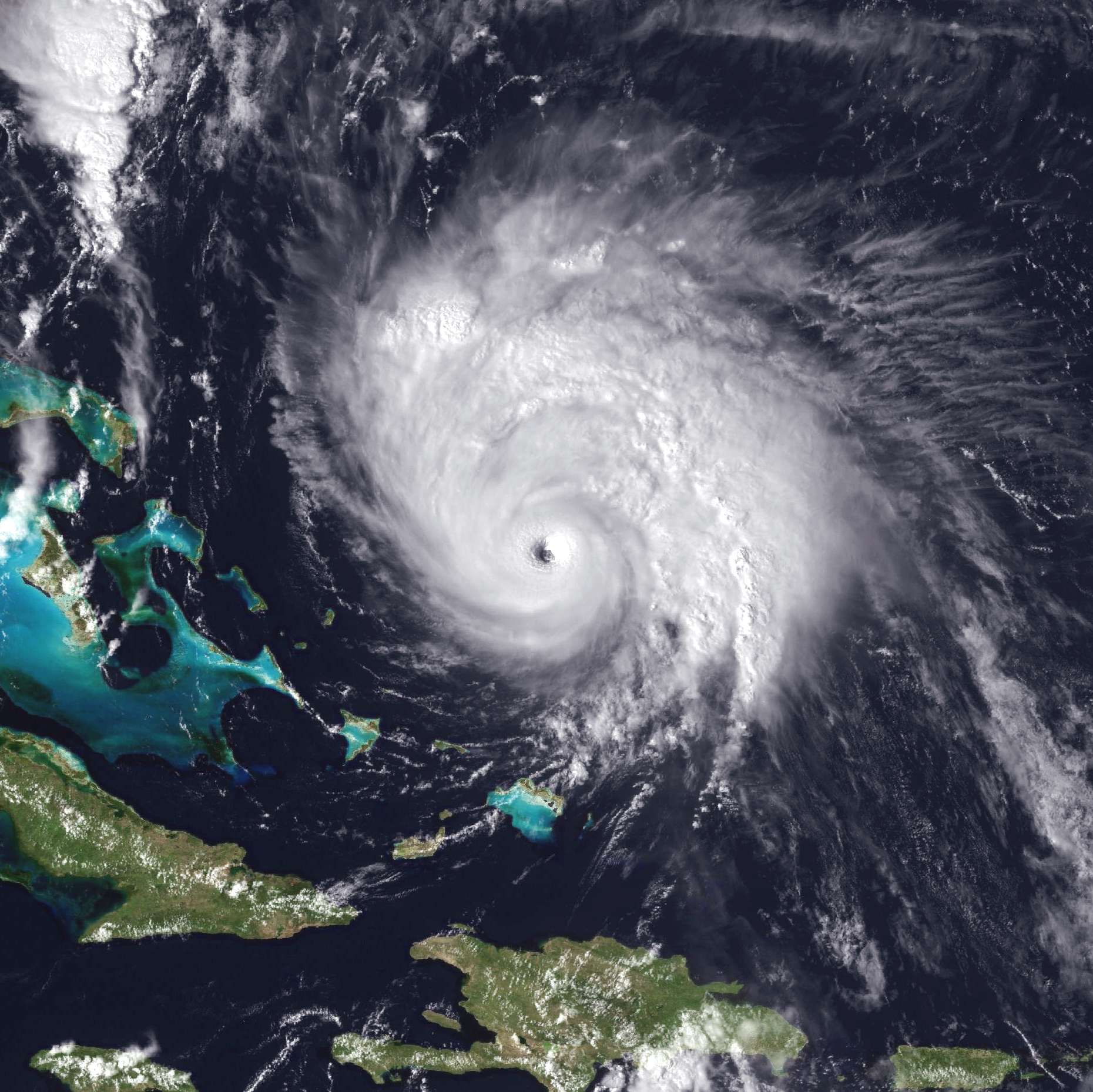 Hurricane Hortense near peak intensity northeast of the Bahamas on September 12, 1996